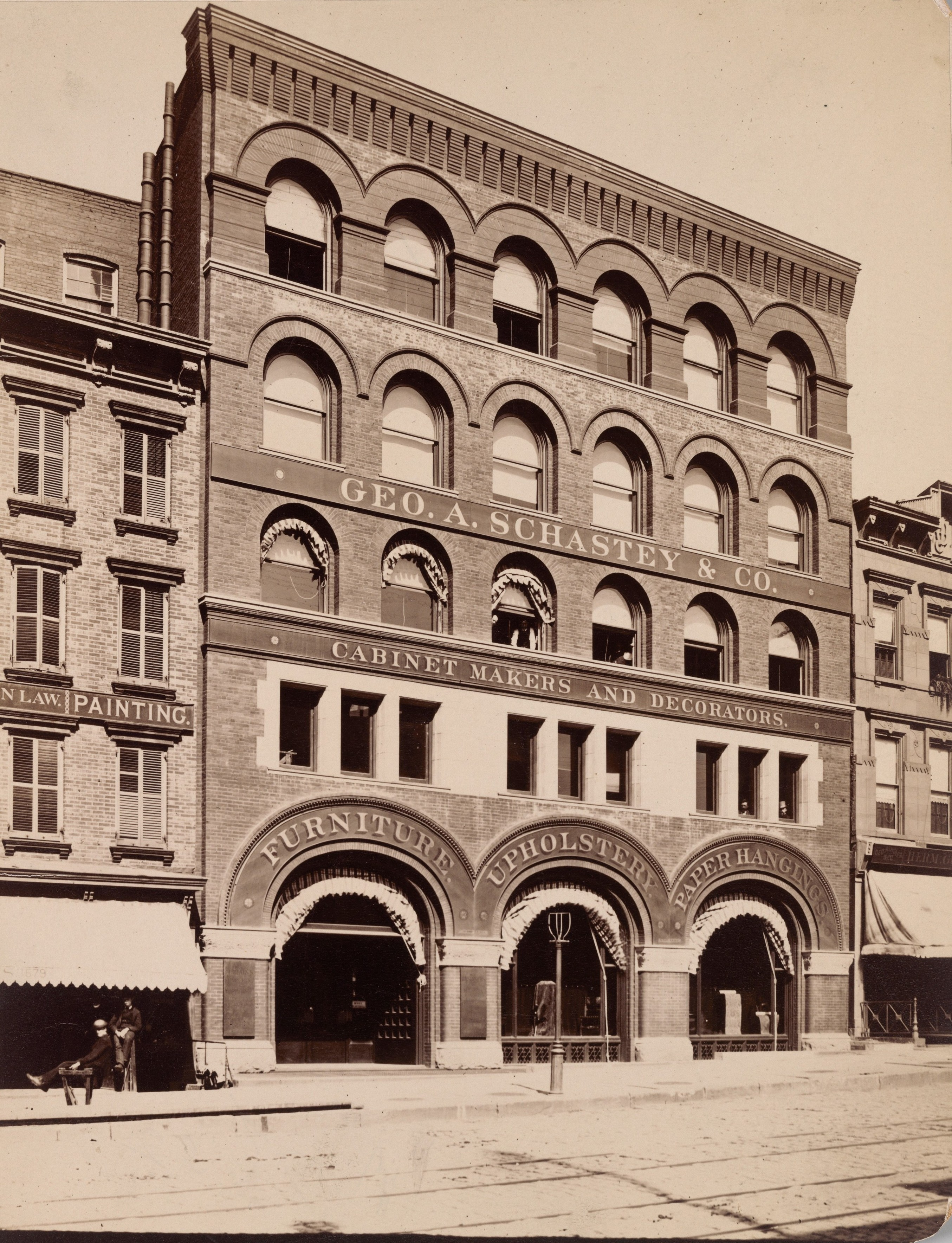 "In 1885, George A. Schastey moved his showroom uptown from its original location near Union Square to follow the migration of his clients toward more fashionable midtown addresses. This photograph shows the facade of the Schastey & Co. showroom, located at 1681–1683 Broadway, near West Fifty-Third Street. As noted on the signage, Schastey’s firm provided a complete range of decorating services and goods, in addition to the traditional furniture offerings of a cabinetmaker." description from MET (actual location of The Broadway Theatre American; Photograph; Photographs